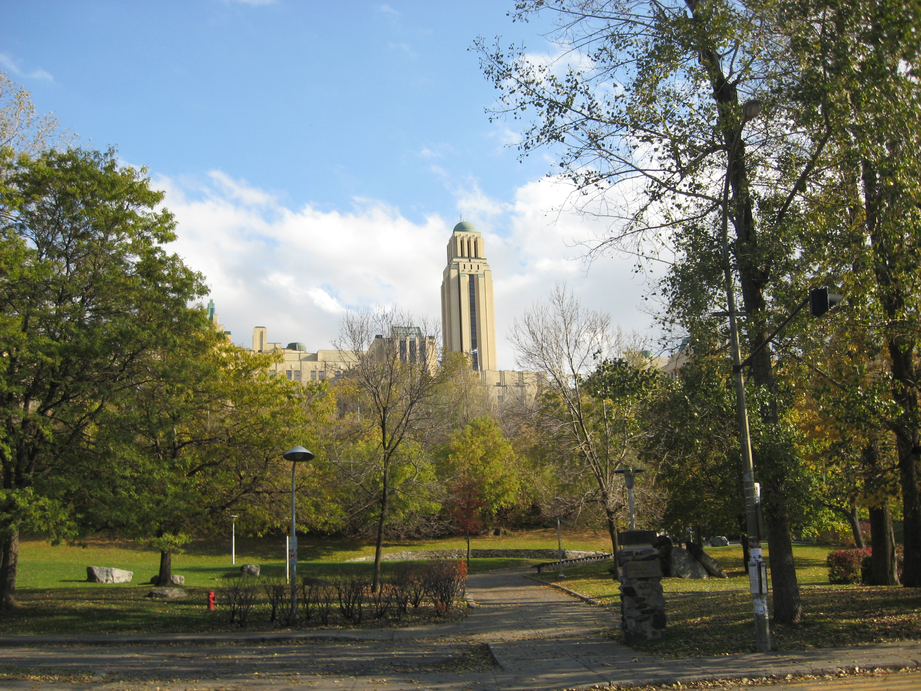 Roger-Gaudry pavilion, Université de Montréal